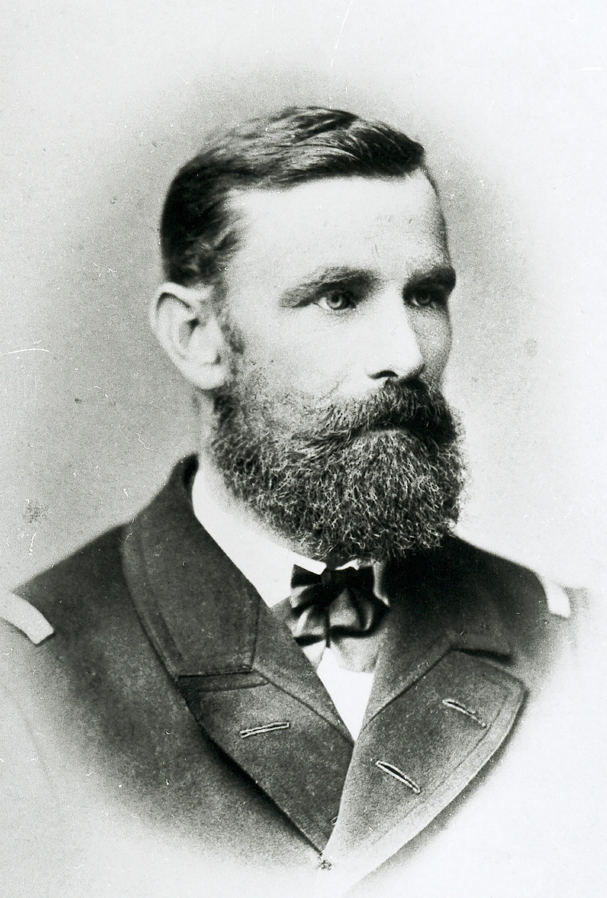 Karl Weyprecht, undated.